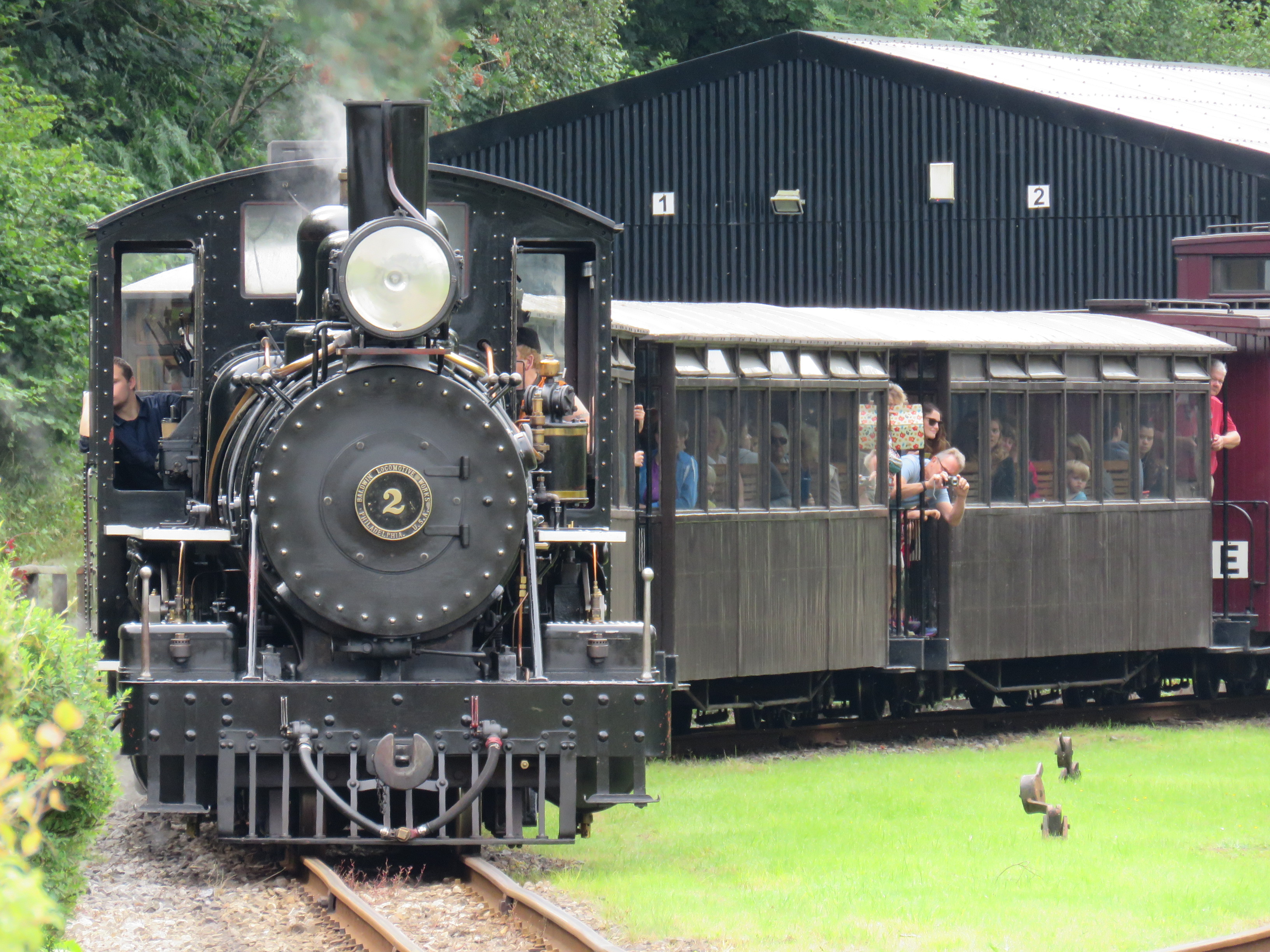 train leaving Pant, Brecon Mountain Railway